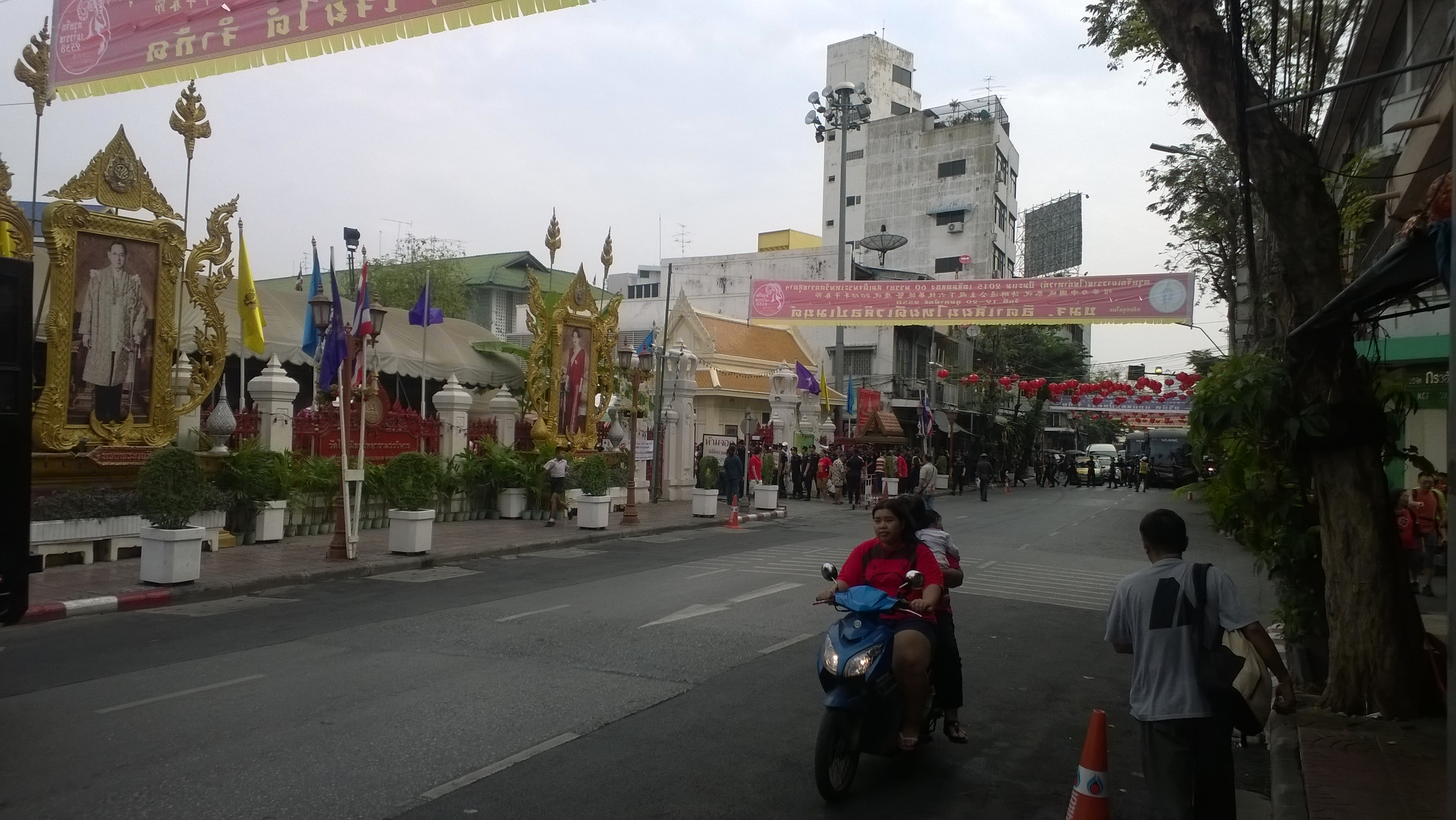 Wat Traimit on Chinese New Year 2015